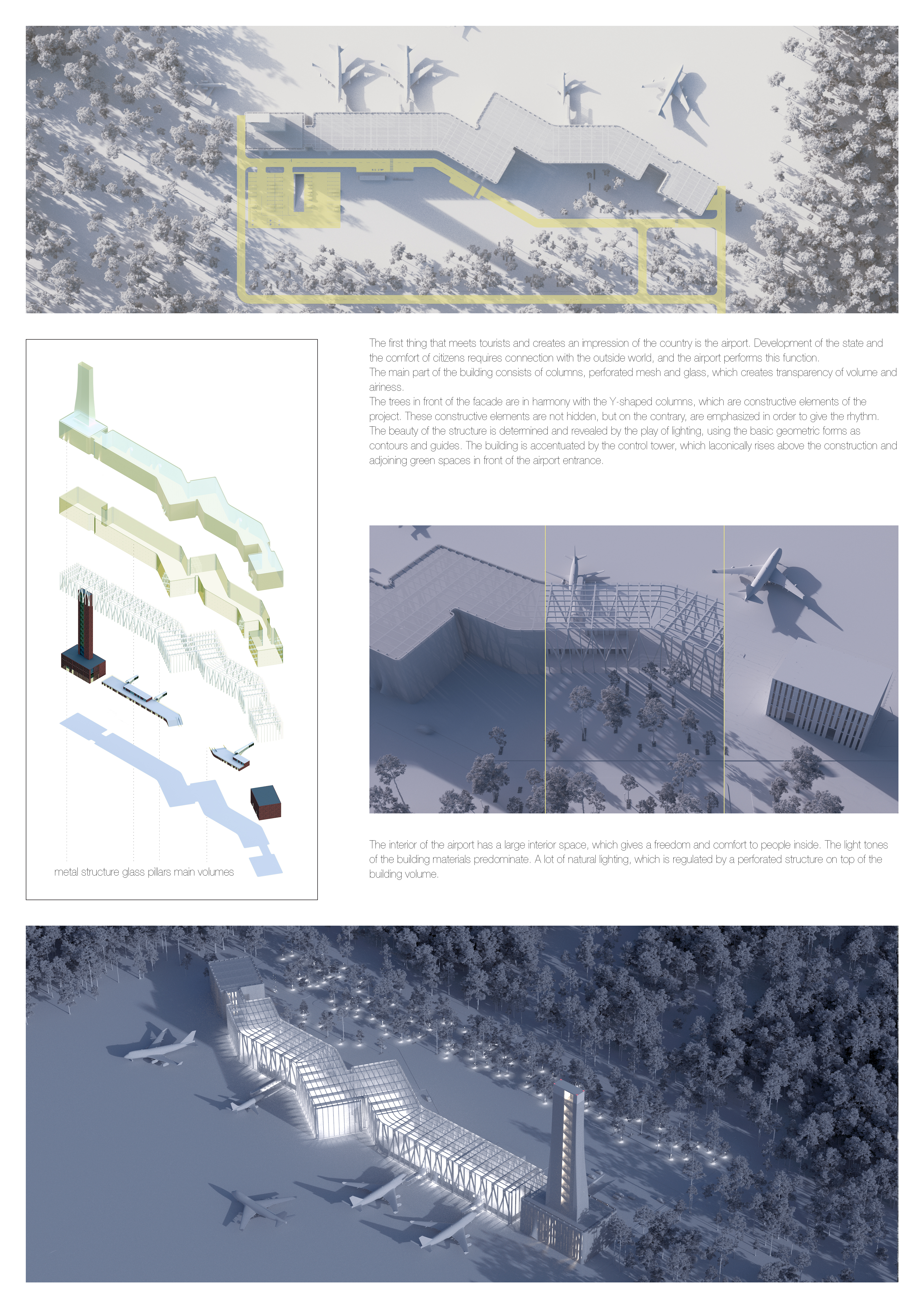 Bălți International Airport